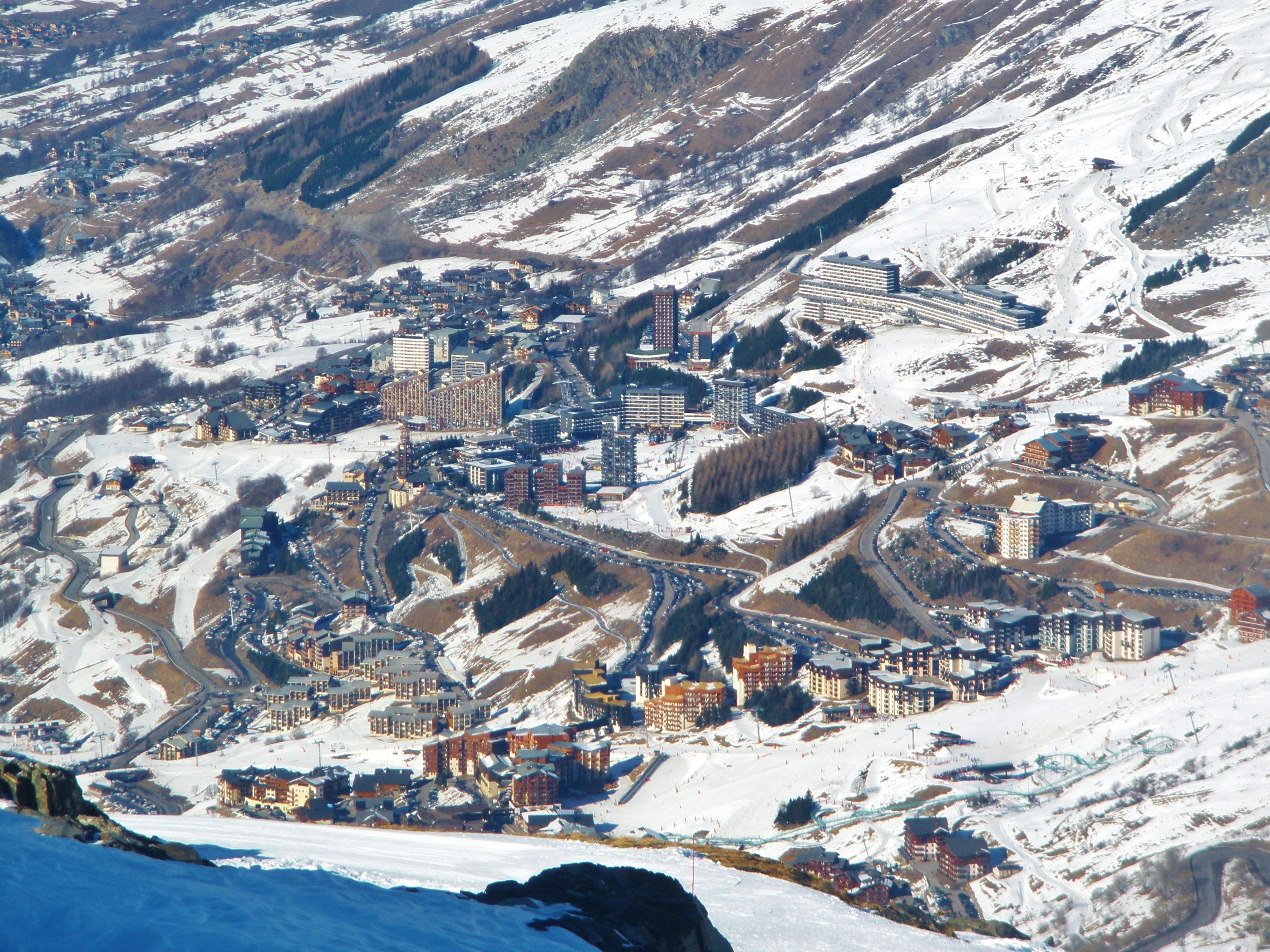 Panoramic sight, from the slopes of Val Thorens, of Les Menuires ski resort, in Savoie, France.